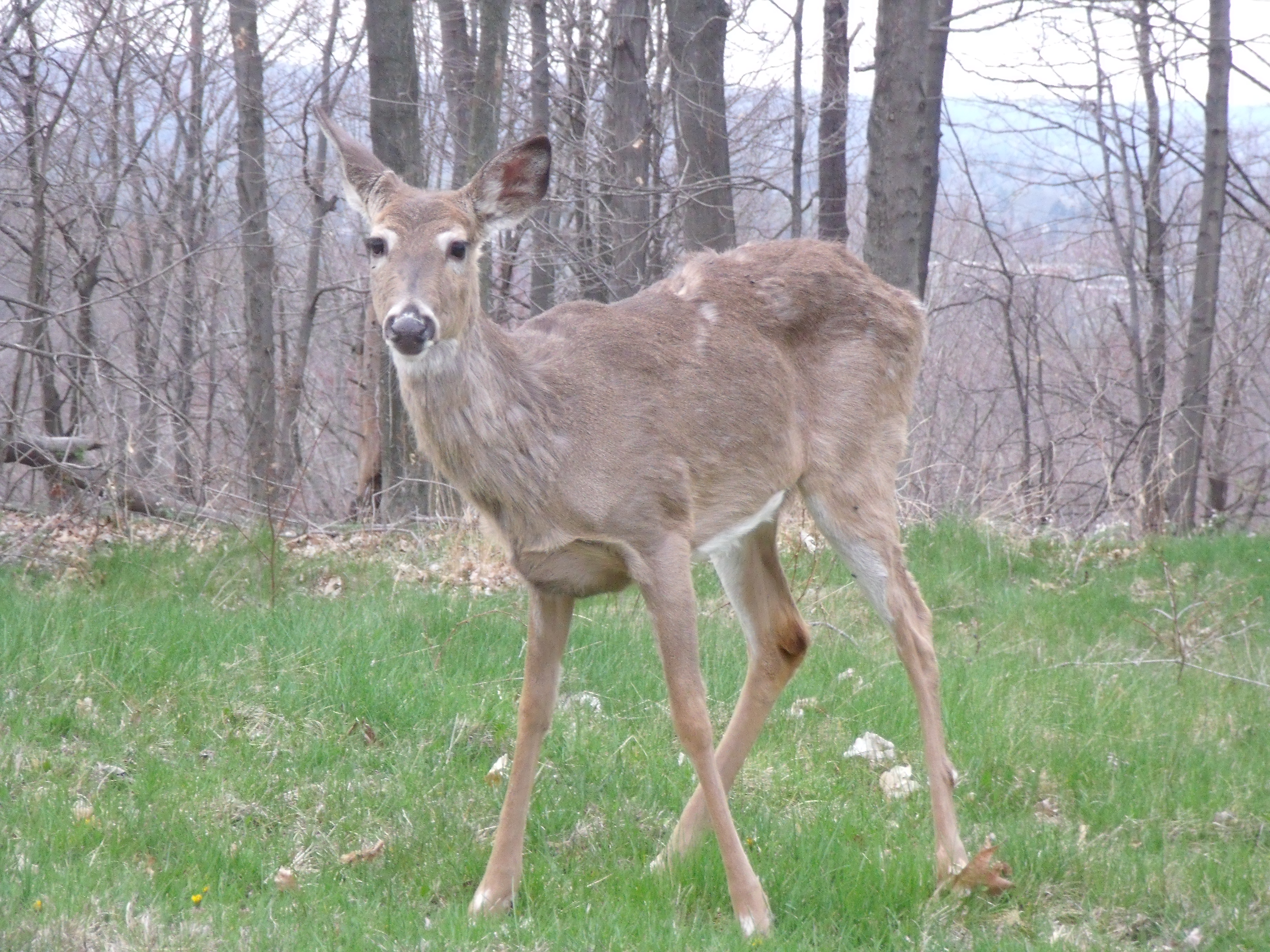 White-tailed deer